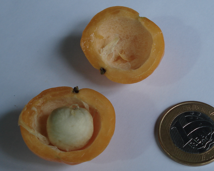 Ripe fruit from cagaita (Stenocalyx dysentericus, Eugenia dysenterica). Collected 2010-12-19 at UNICAMP, Campinas, Brazil. The Brazilian real coin is 27mm across. Photo by Jorge Stolfi.